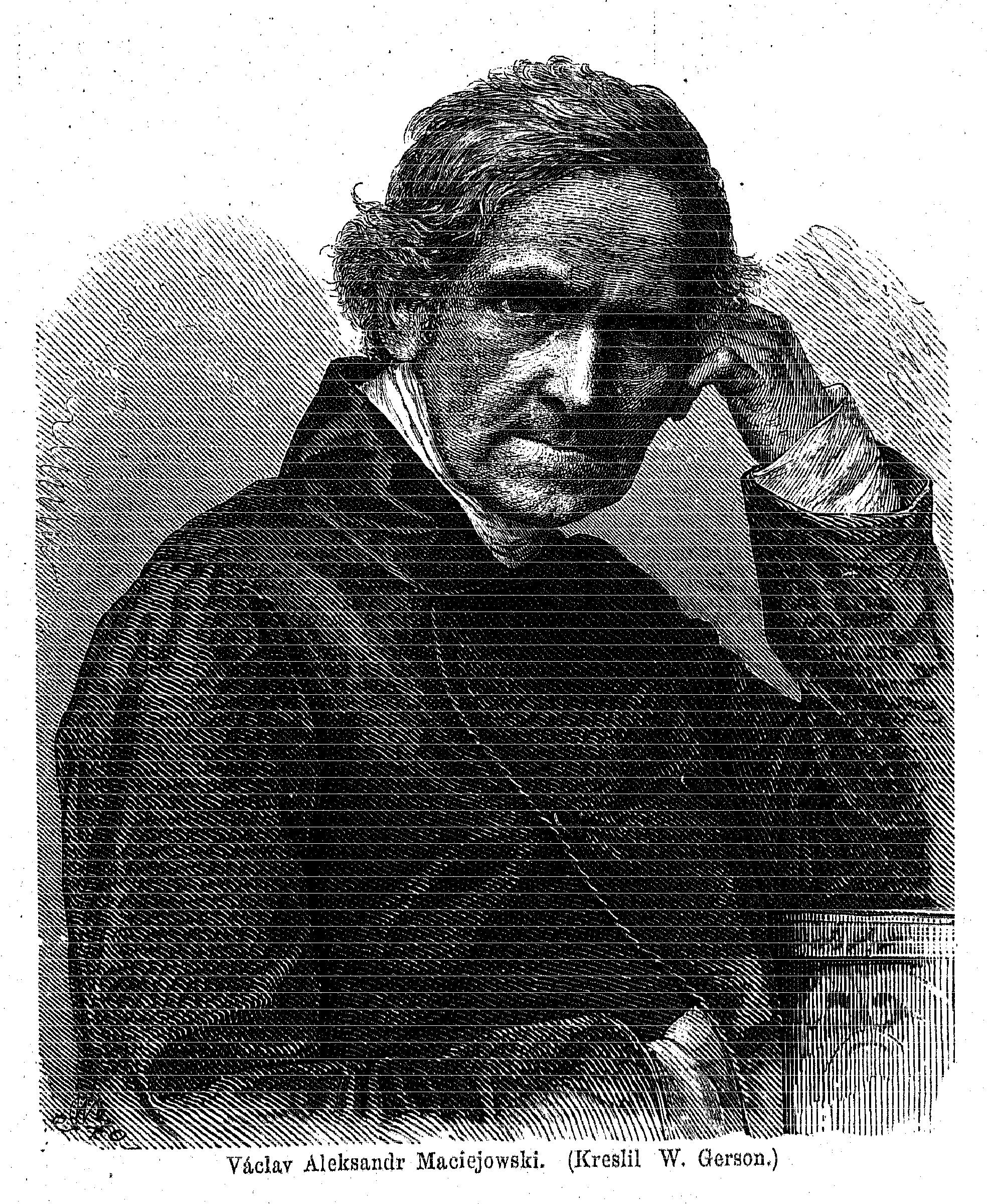 Portrait of Wacław Aleksander Maciejowski (1792 - 1883), Polish historian from Silesia.